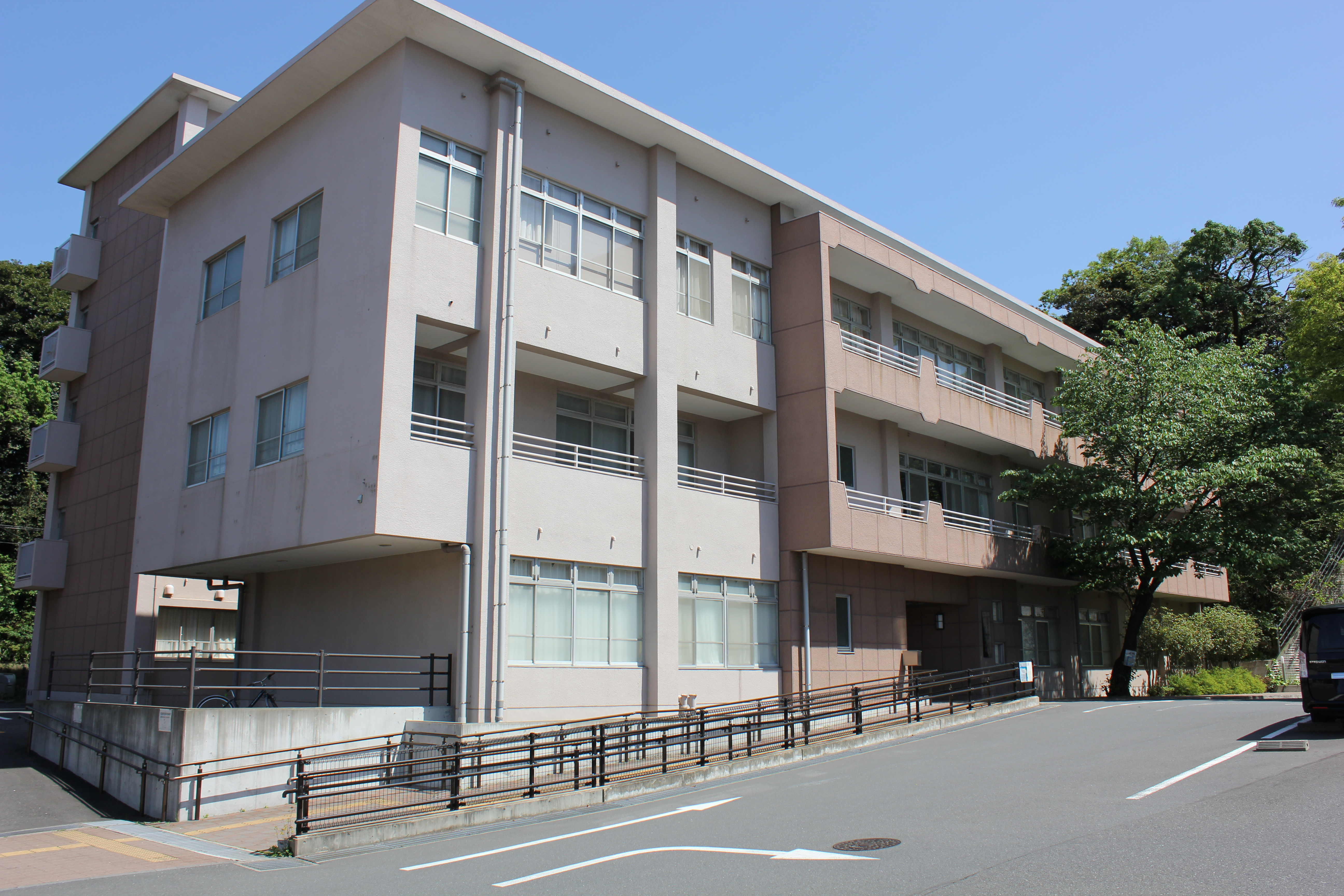 Yokosuka City Nursing School